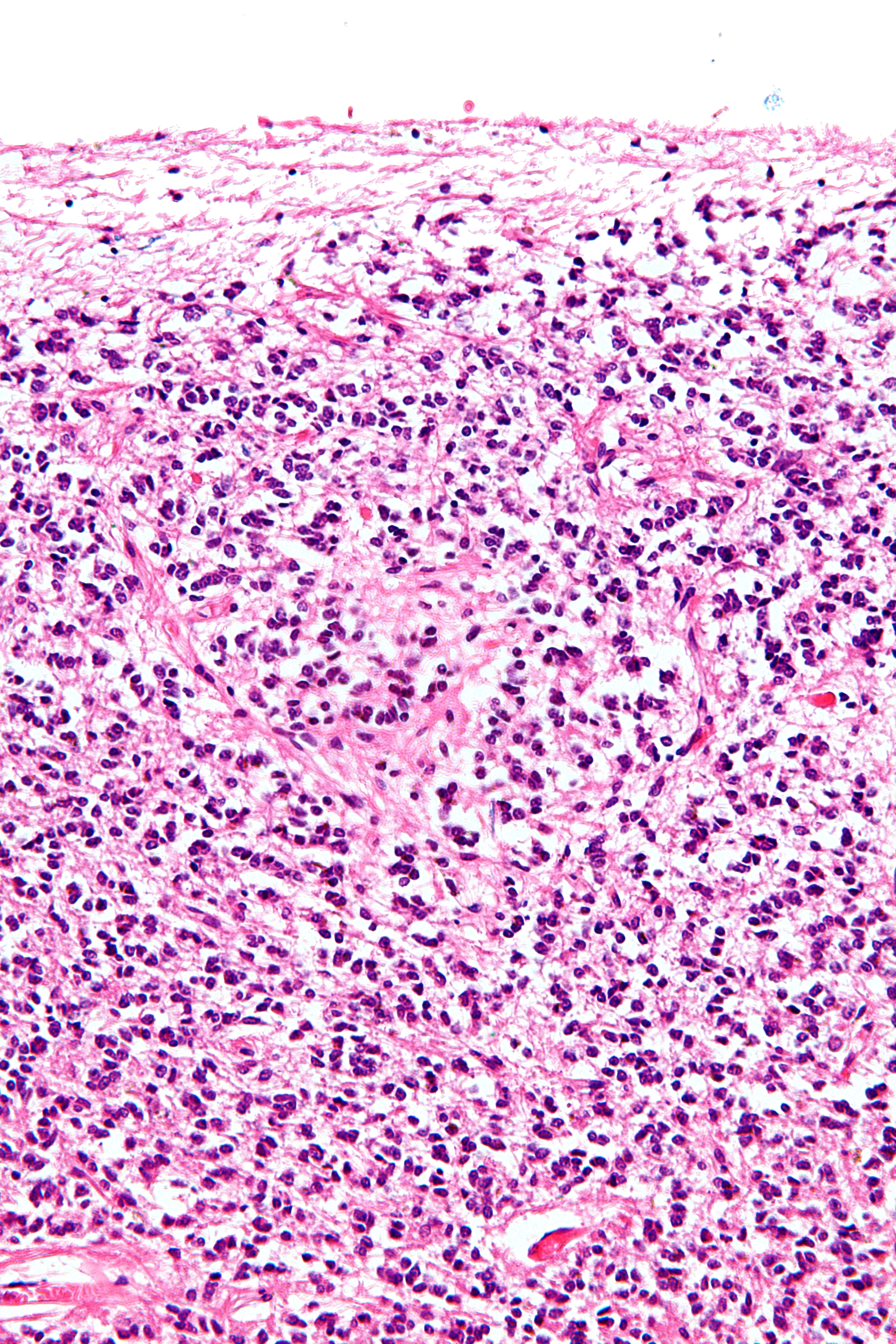 High magnification micrograph of a normal pineal gland. H&E stain. The pineal gland is very cellular and can be mistaken for a neoplasm.[1] Related images Low mag. Intermed. mag. Very high mag. References ↑ Kleinschmidt-DeMasters BK, Prayson RA (November 2006). "An algorithmic approach to the brain biopsy--part I". Arch. Pathol. Lab. Med. 130 (11): 1630–8. PMID 17076524.